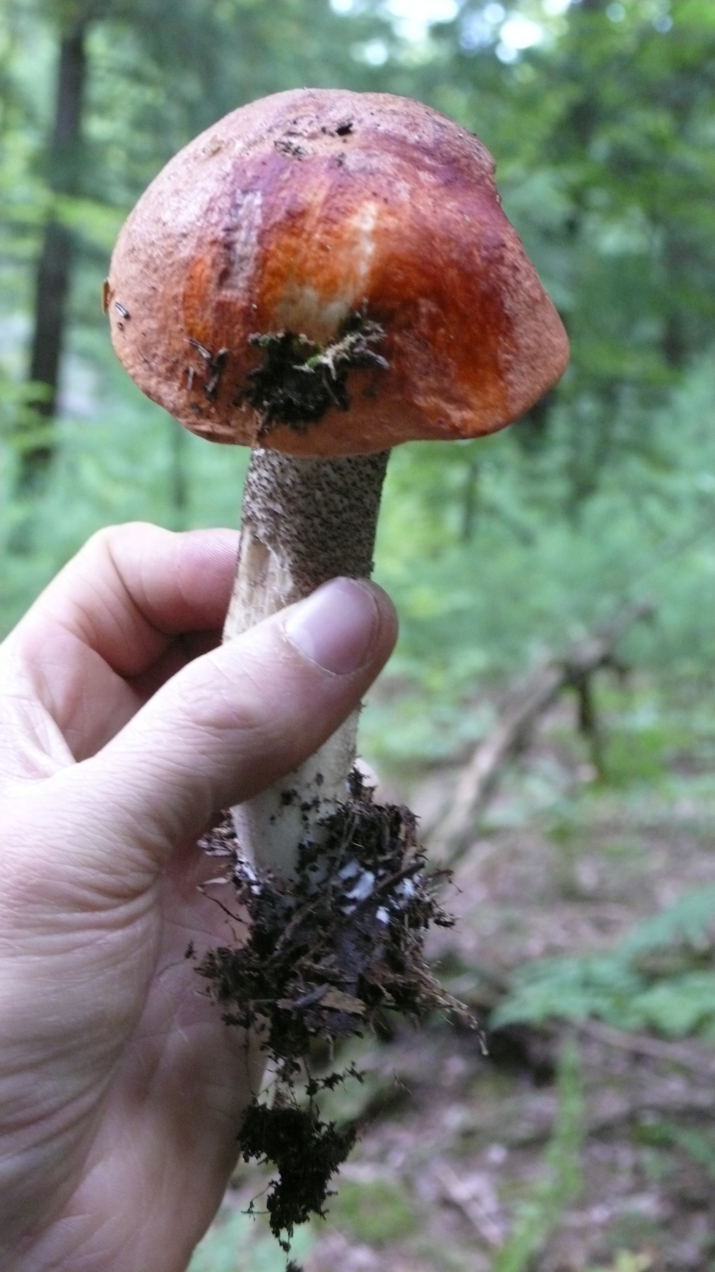 Leccinum atrostipitatum